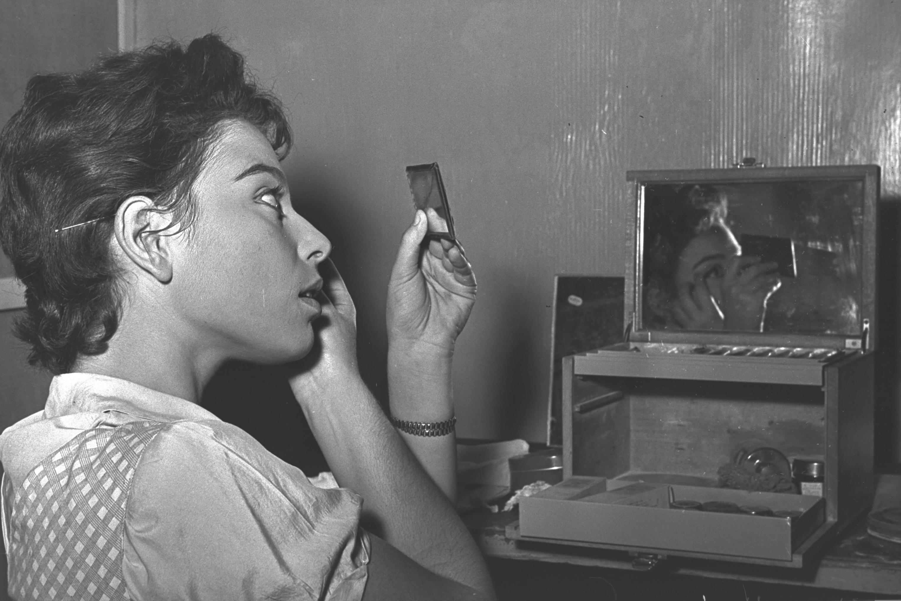 Original Description: CHAJA HARARIT APPLYING MAKE UP AS RACHEL IN THE PERFORMANCE OF "CASABLAN" AT S'DOM.